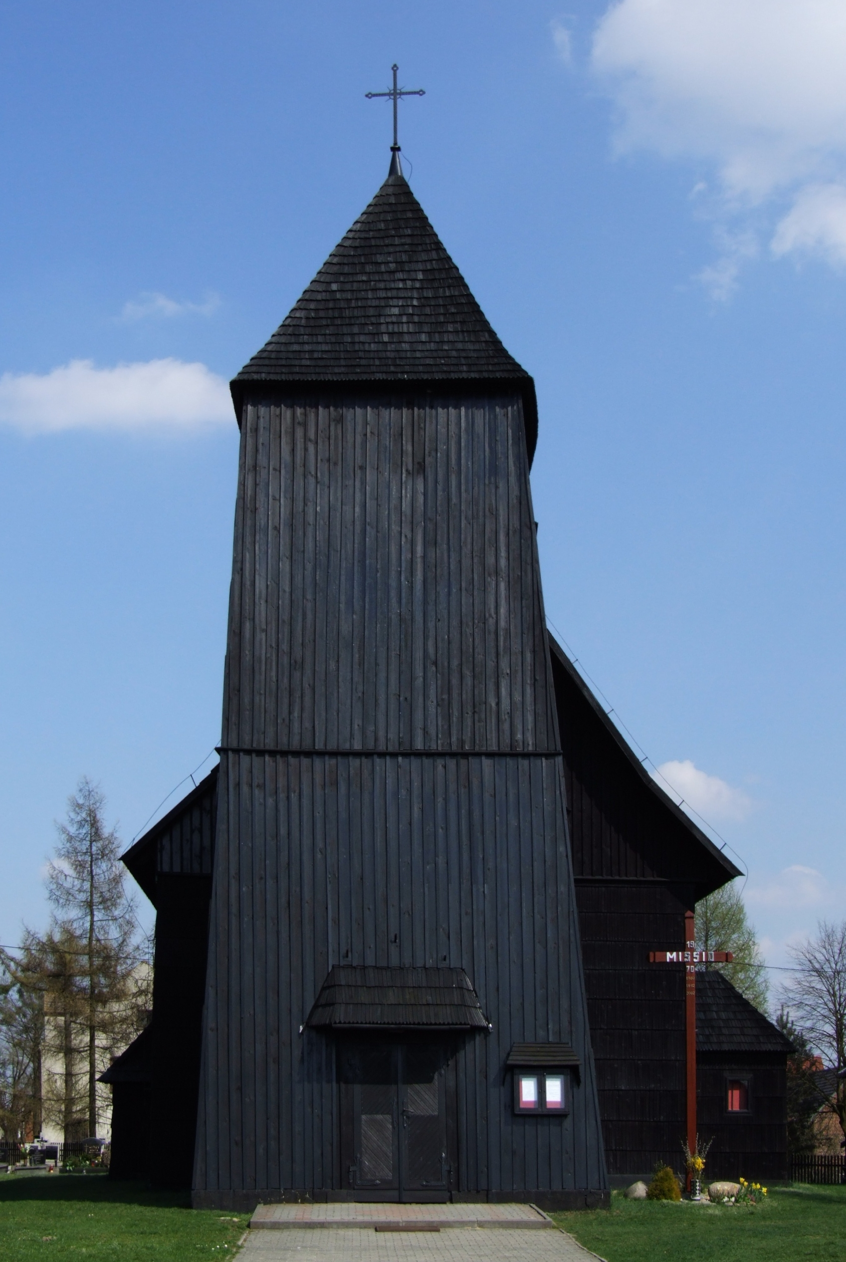 Wooden church in Lasowice Małe (Klein Lassowitz), Upper Silesia